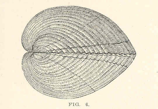 Subject: Nuttall cockle Tag: Shellfish